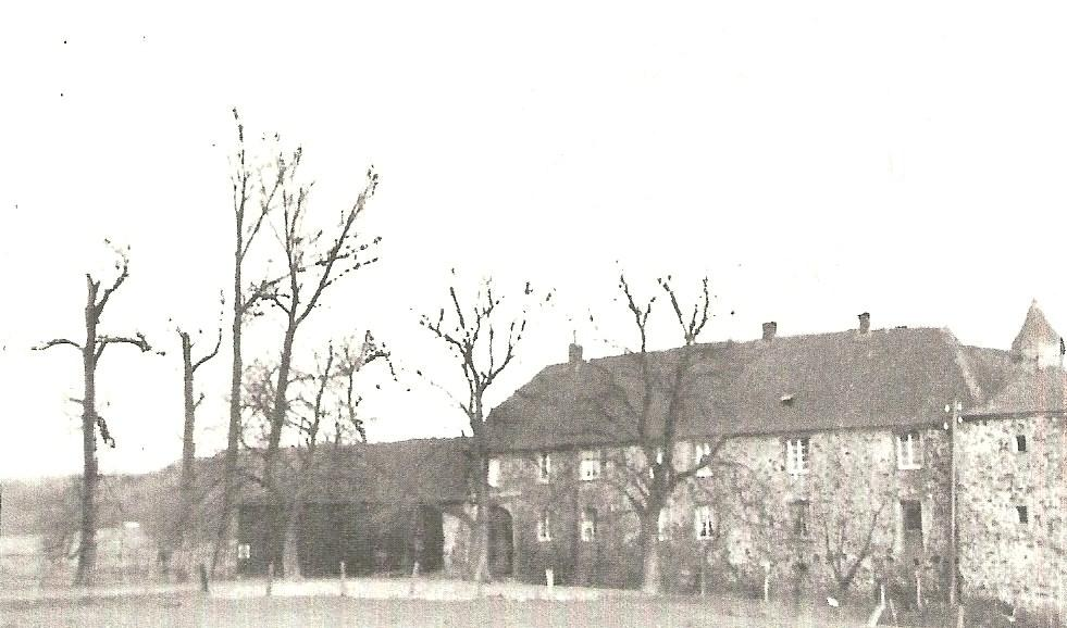 Burg Sülz